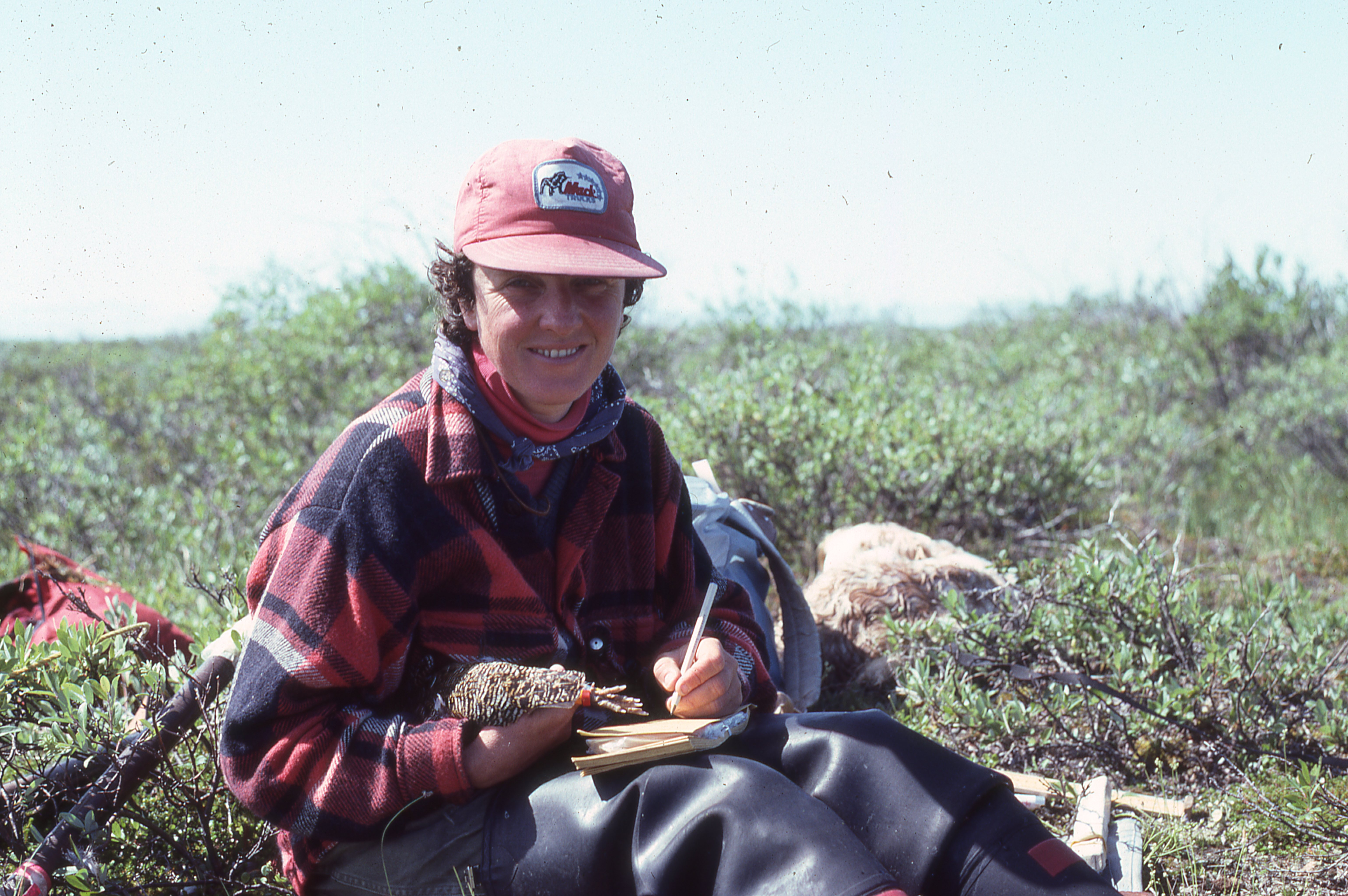 Kathy Martin hold a willow ptarmigan at La Pérouse Bay, Manitoba, Canada in 1983. She did her PhD field work on Hudson Bay.